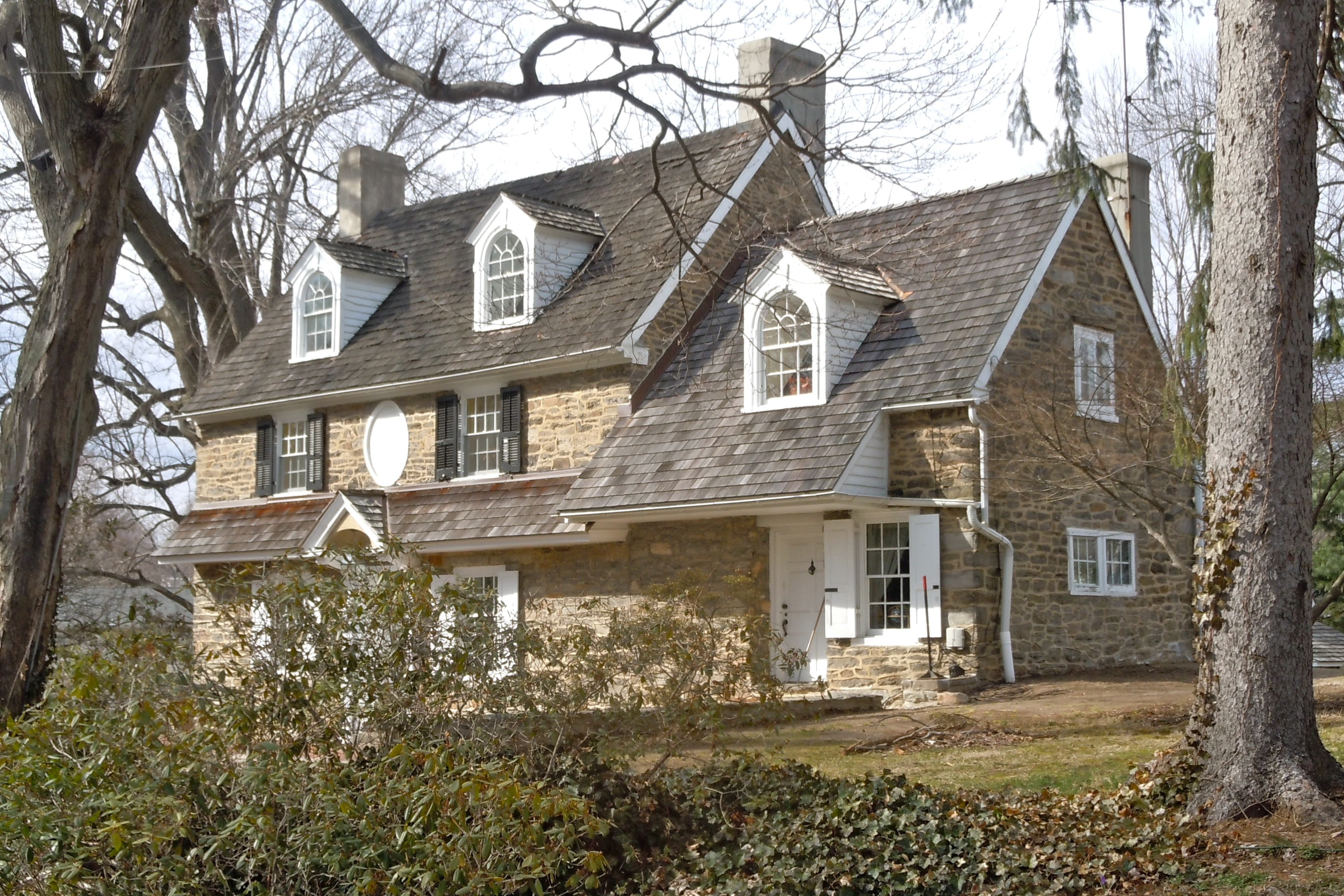 "Wolley Stille" a house on the NRHP since June 27, 1980. On Harvey Road in Wallingford (Nether Providence Township), in Delaware County, Pennsylvania. House originally built about 1700 (right side) and added to in 1751 (left side). Ancestral home of the Sharpless family (who still live there) but named after a Swedish settler Wolley (or Ole) Stille, who died before 1700. Nearest big city: Chester PA